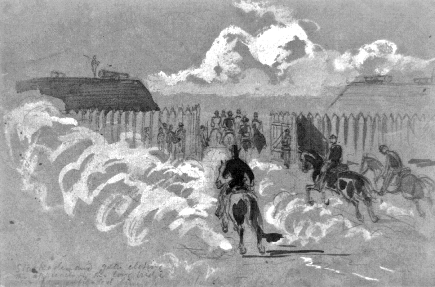 Inscribed: Stockade and gates closing the approach to the long bridge [thro'] two enfiladed lines. (a dusty place). Inscribed on verso: Long bridg [sic?] Stockade & gate closing the approach to the long bridge across the Potomac, at Washington 61. Published in New York Illustrated News, July 13, 1861, p. 149, as: Stockade and Gate Closing the Approach to the Long Bridge across the Potomac, at Washington. Drawn by Alfred R. Waud. Library of Congress document.